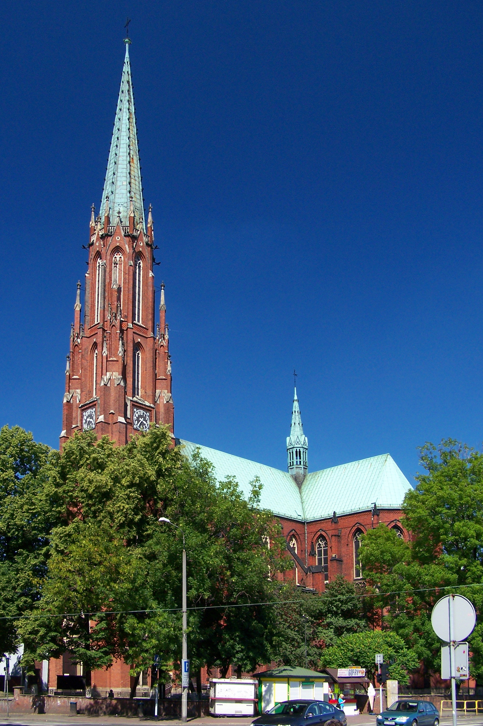 Gothic revival Holy Trinity church in Bytom from 1886.